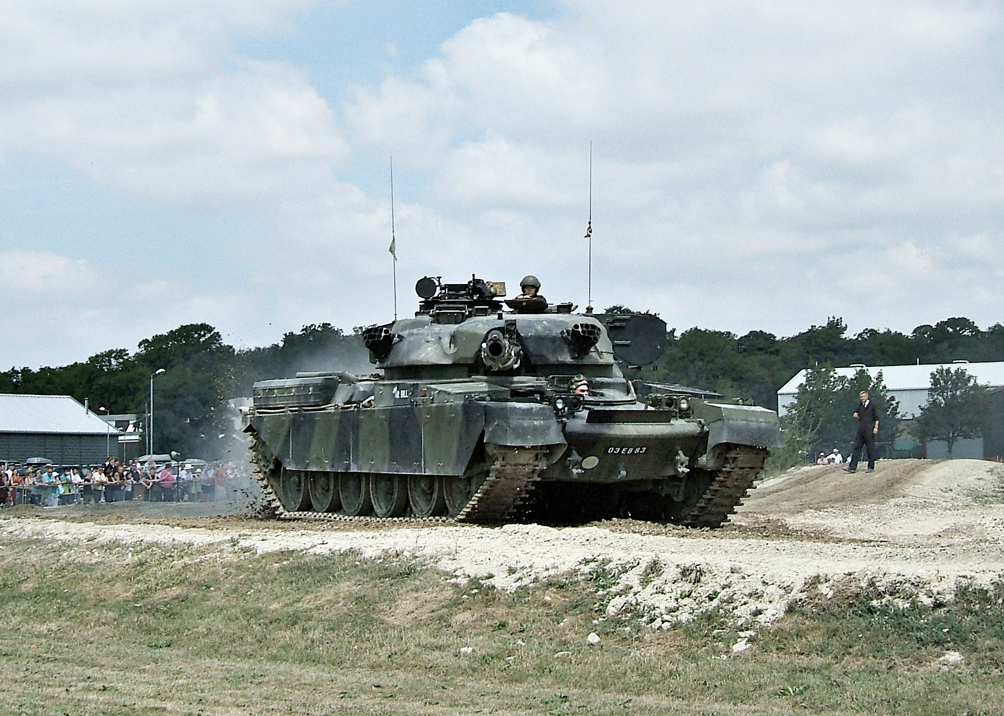 Chieftain tank during a demo at the Bovington tank museum in the UK.